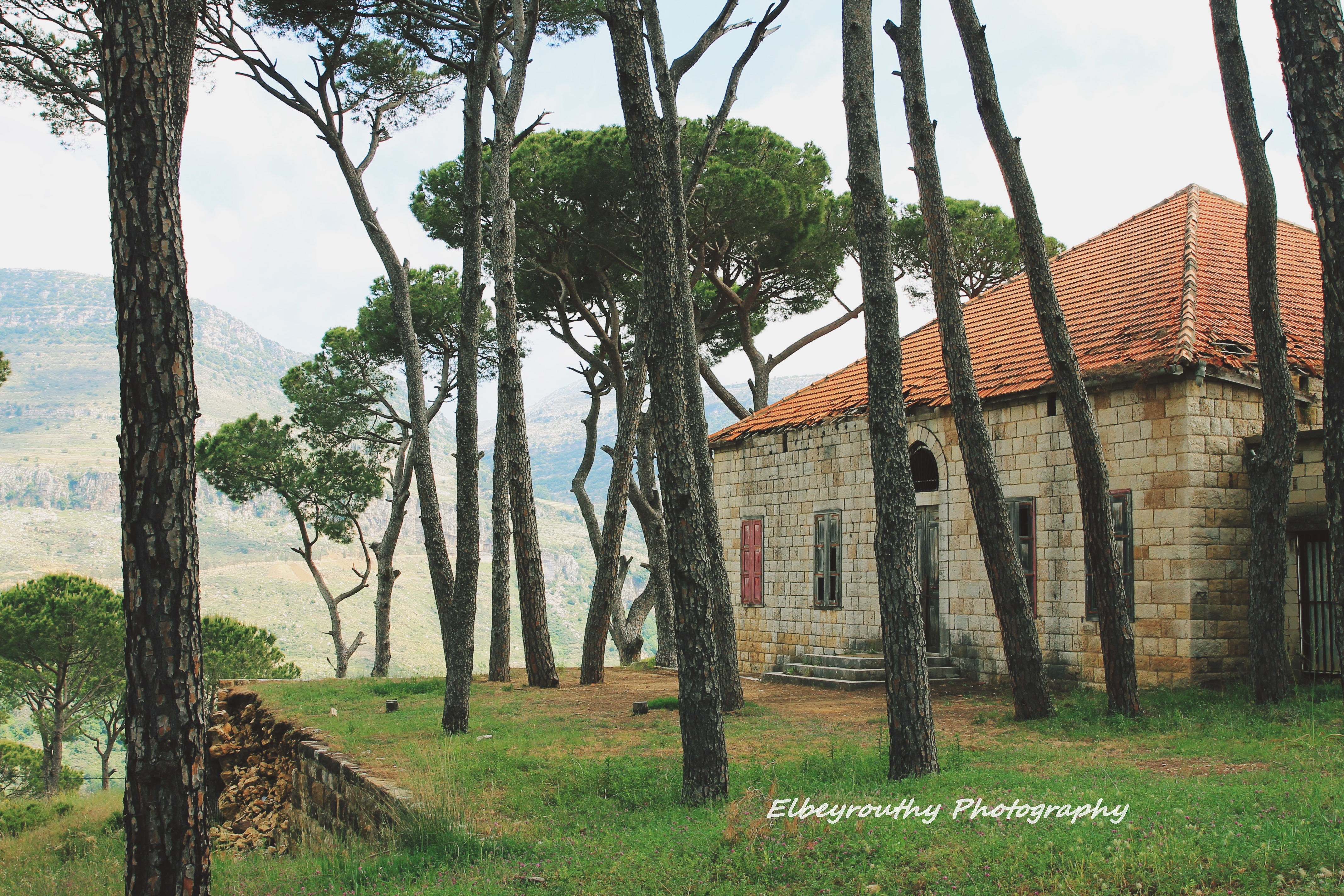 Bkassine is a charming, scenic and peaceful village located 70km away from Beirut